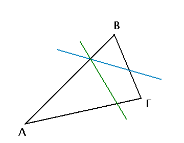 Pasch's axiom